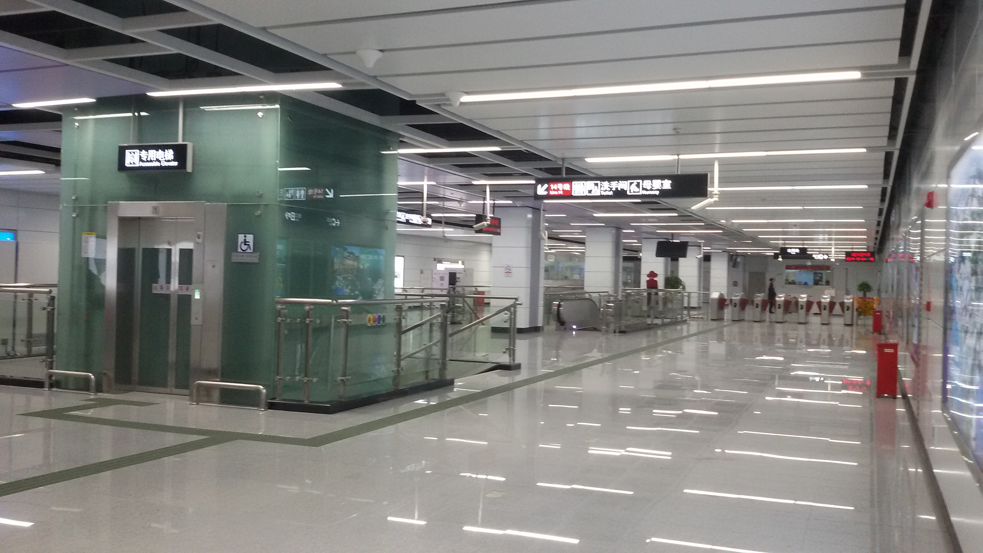 Station Concourse for Xinnan Station in Guangzhou Metro.